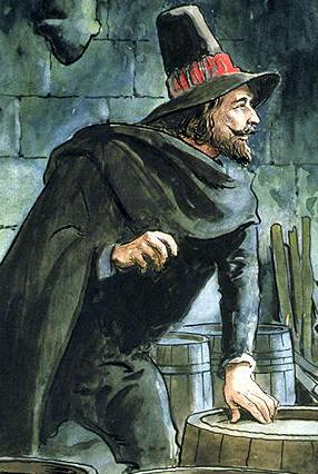 Guy Fawkes, from 'Peeps into the Past'